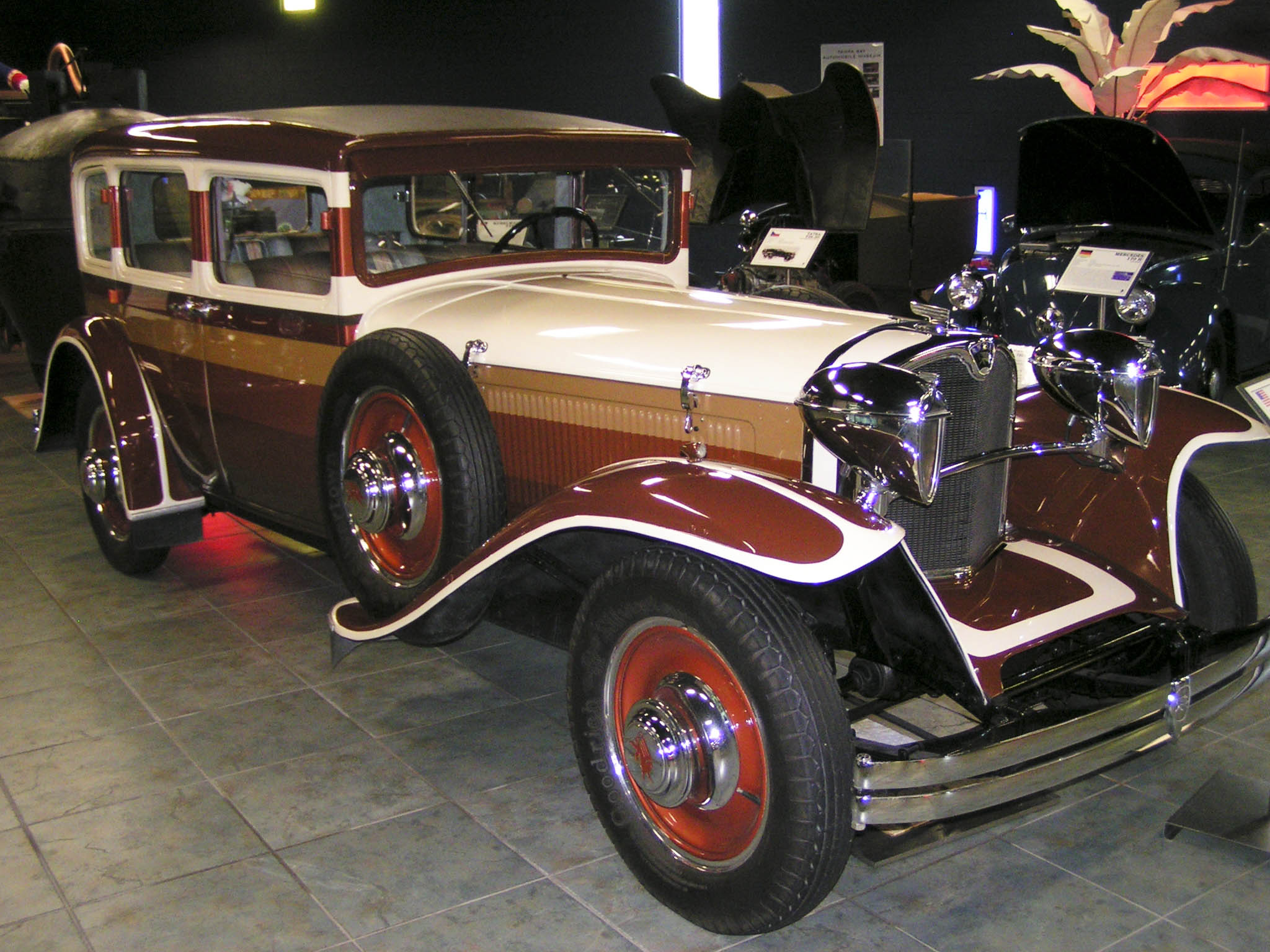 1929 Ruxton First attempt at an American front wheel drive car in the USA - this is a prototype from 1929. Features a Continental eight cylinder engine and three speed gearbox for a 70mph top speed.1929 Ruxton